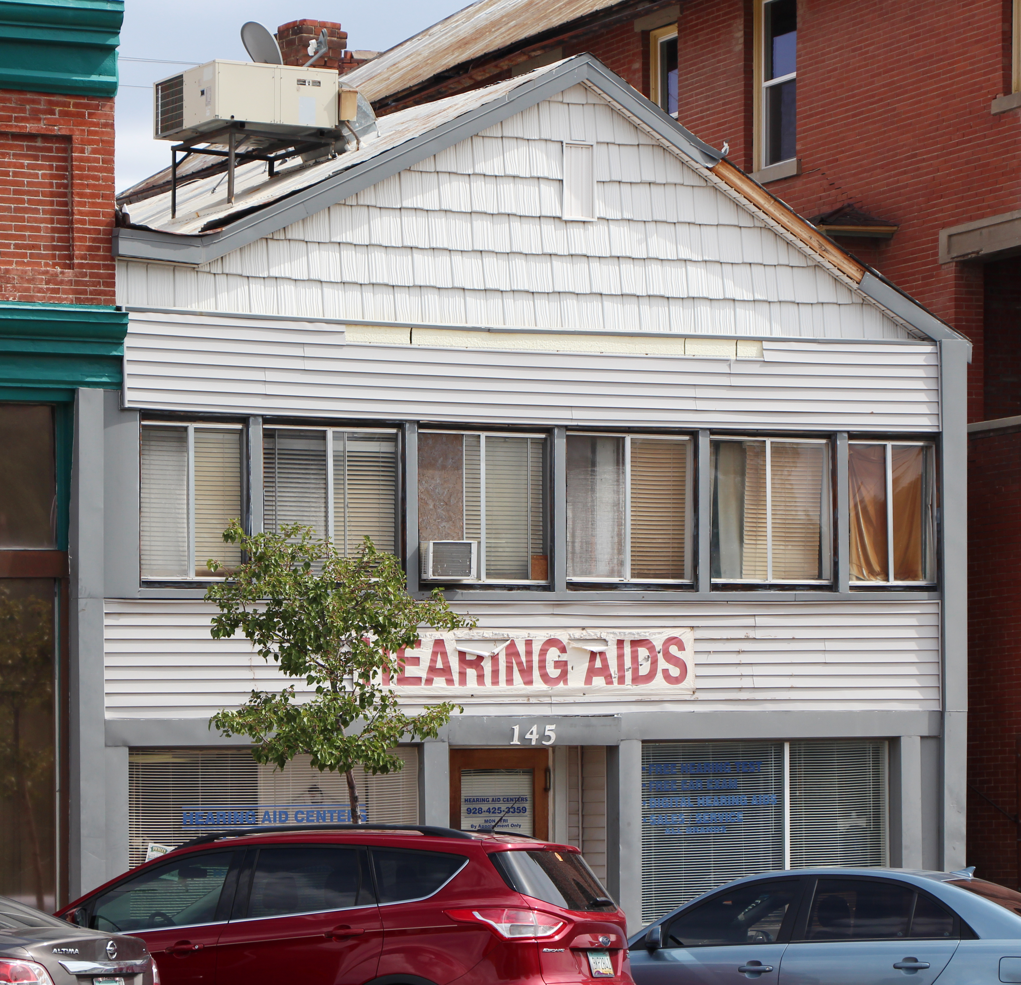 Residence, 145 Broad Street, Globe, AZ